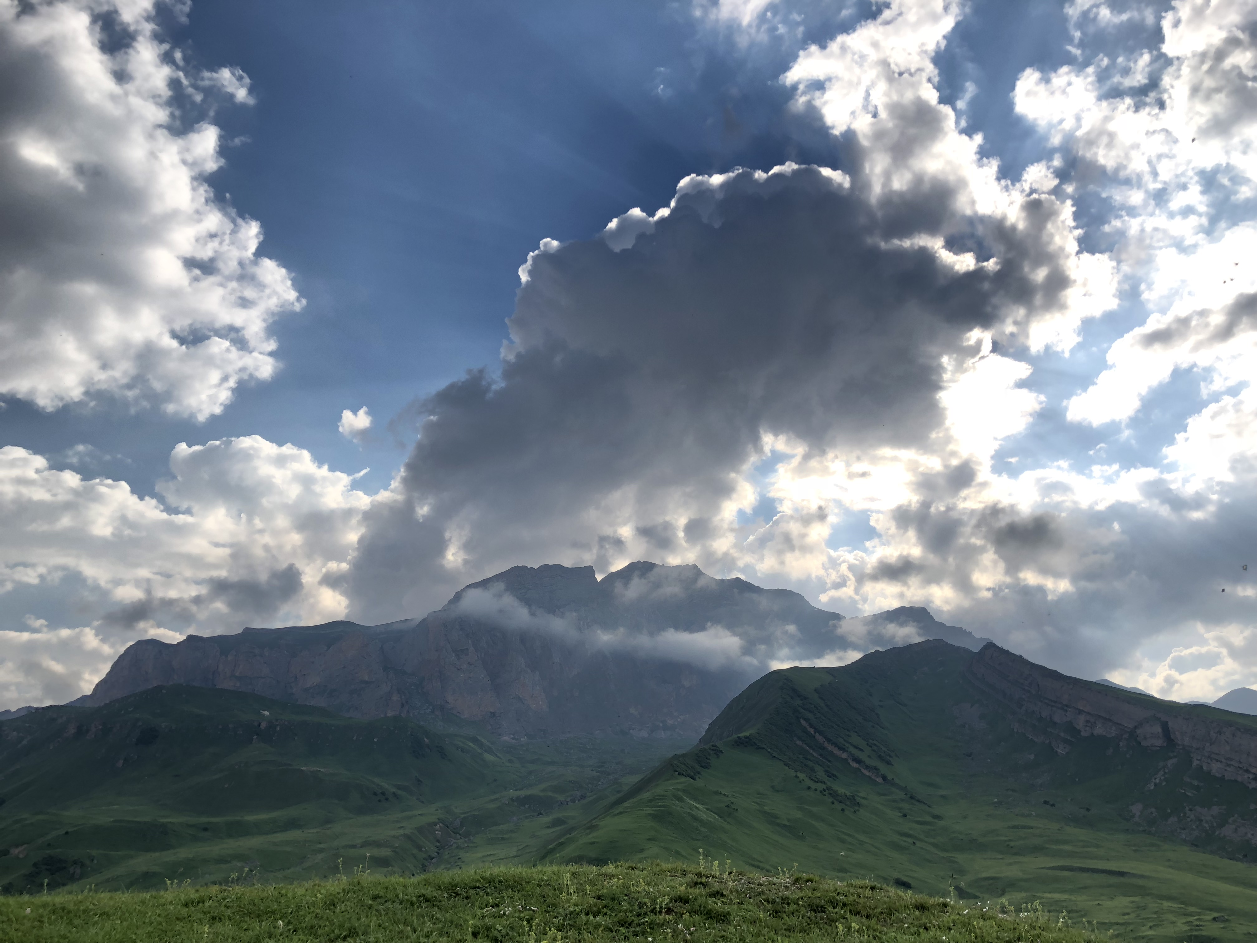 View of Laza village in Gusar District of Azerbaijan 18